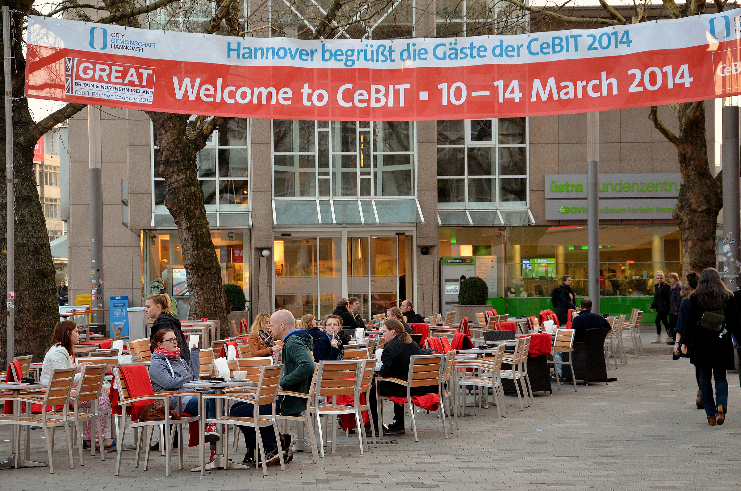 Banner "Welcome to CeBIT 10 - 14 March 2014" in Hanover ...